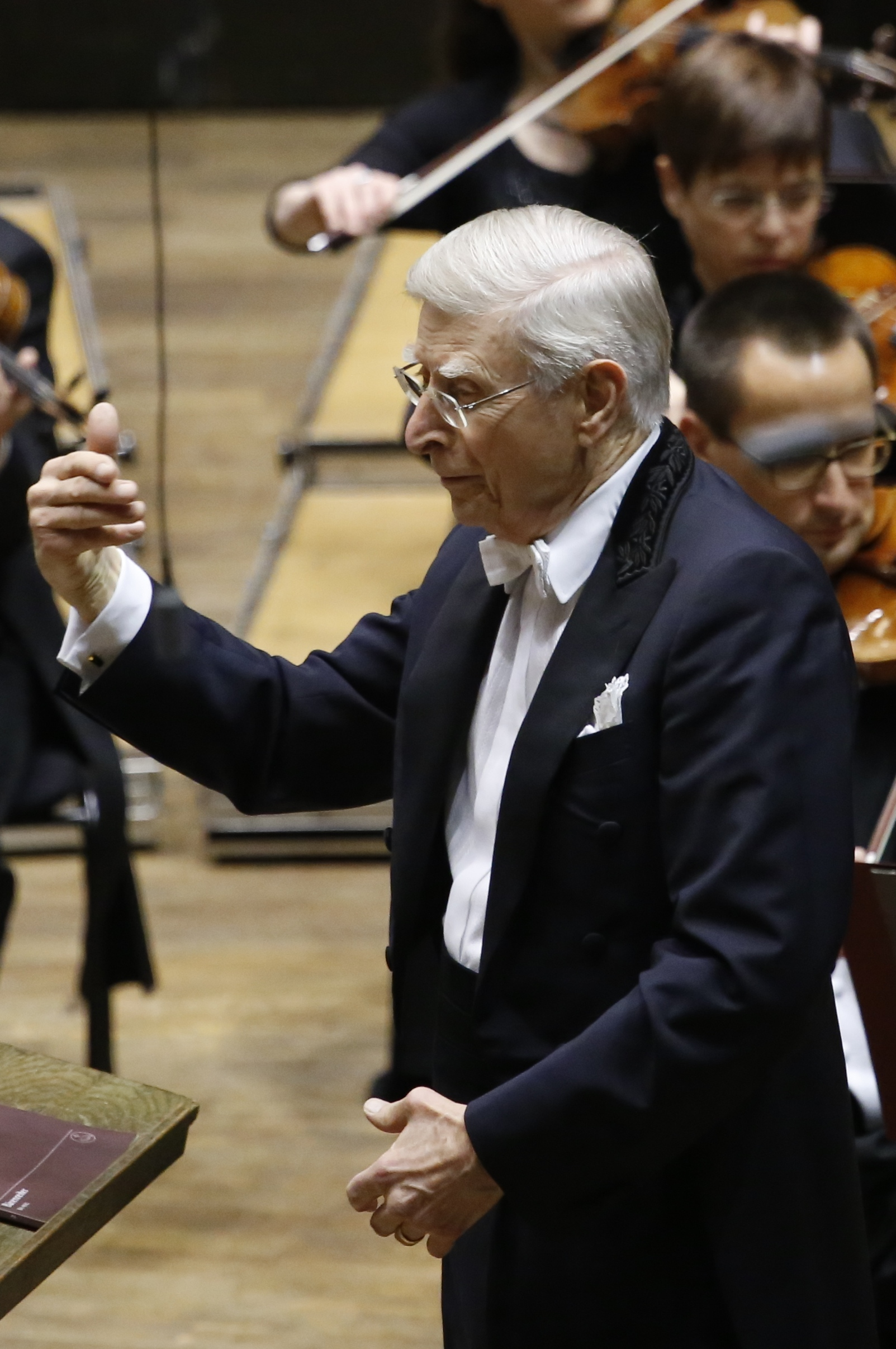 Herbert Blomstedt in Leipziger Gewandhaus.